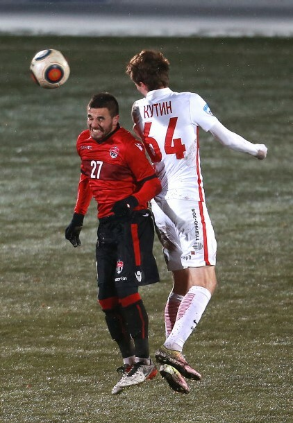 Kirill Zaika playing against Denis Kutin (FC Spartak-2 Moscow) on 30 October 2016.